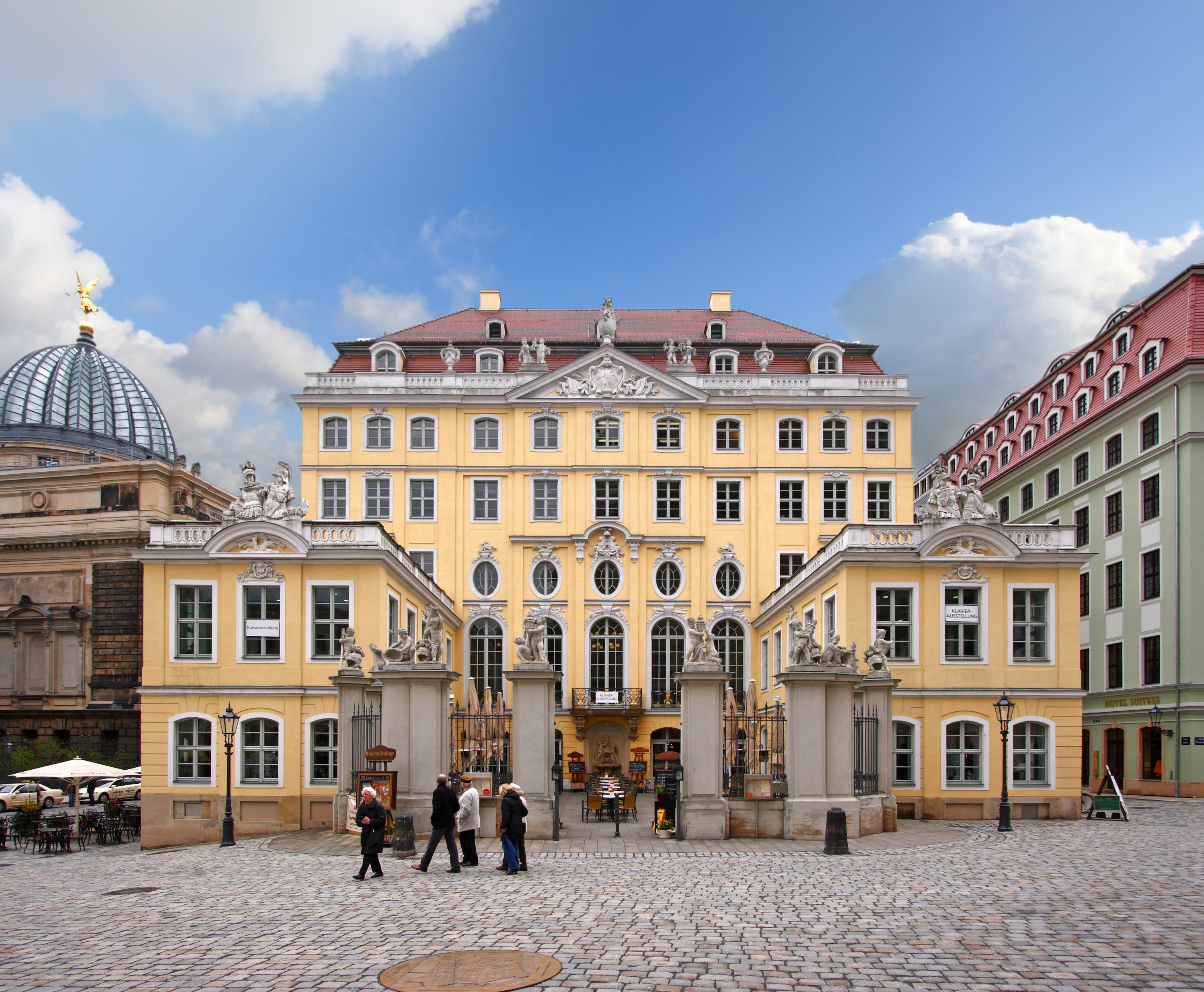 Coselpalais, Dresden